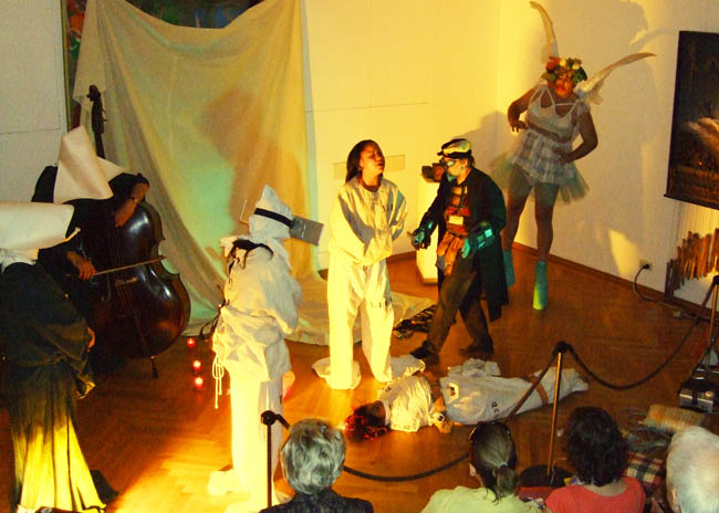 Lubo Kristek: happening Third Eye of Distance Communication (2008), Landsberg am Lech